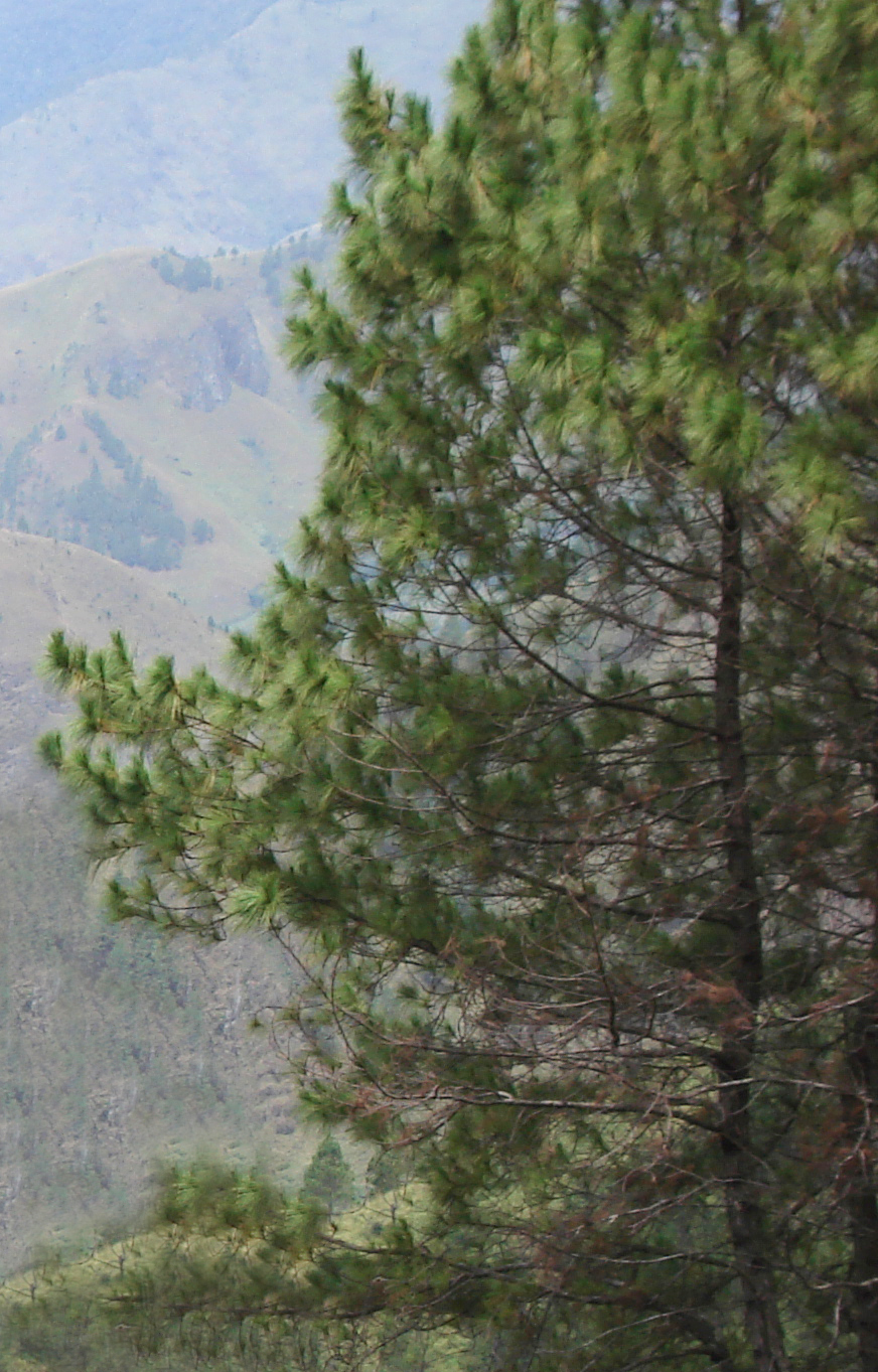 Pinus merkusii, Lake Toba, Sumatra, Indonesia